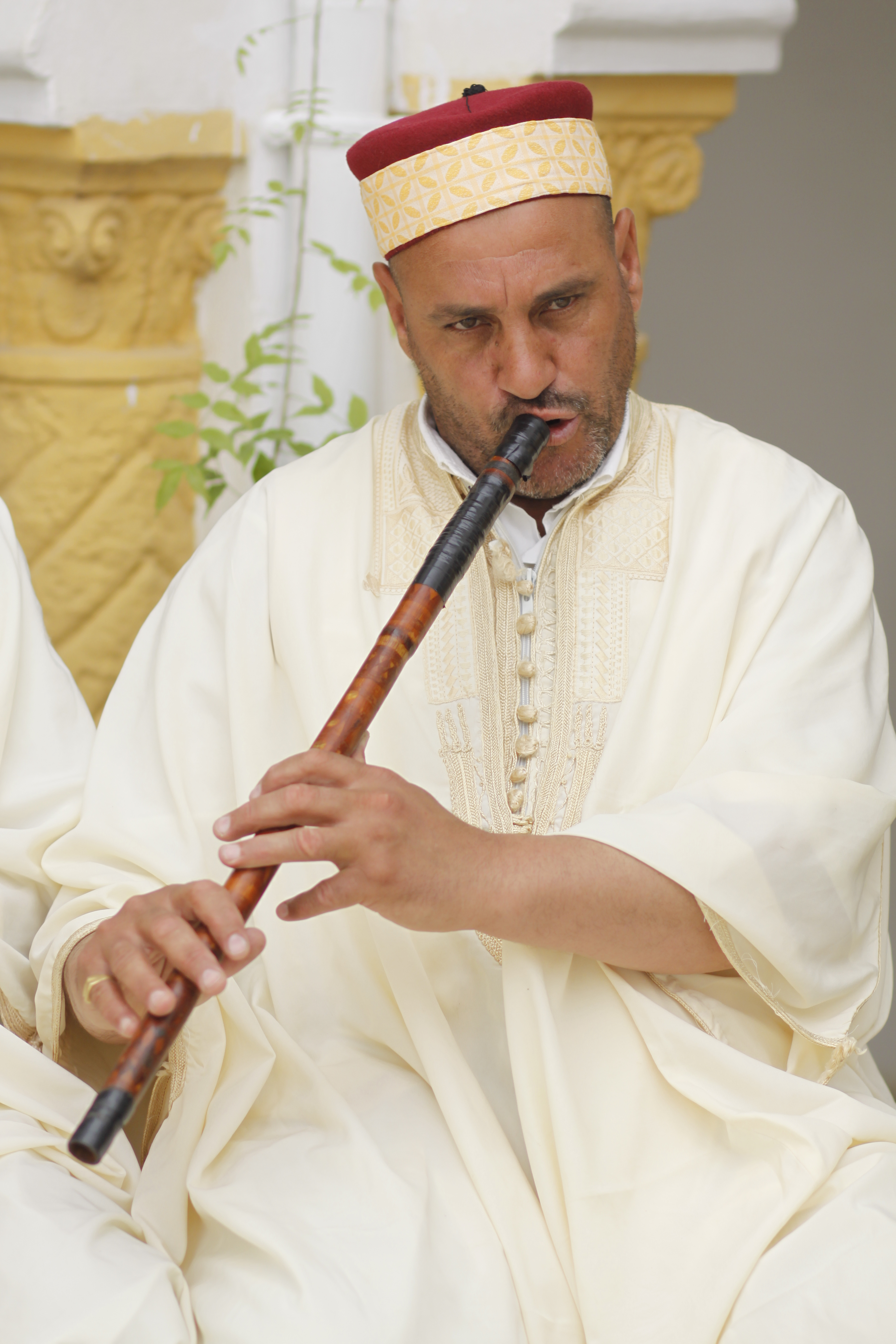 Man playing Gasba in city of Medéa in Algeria This is an image of Cultural Fashion or Adornment from Algeria